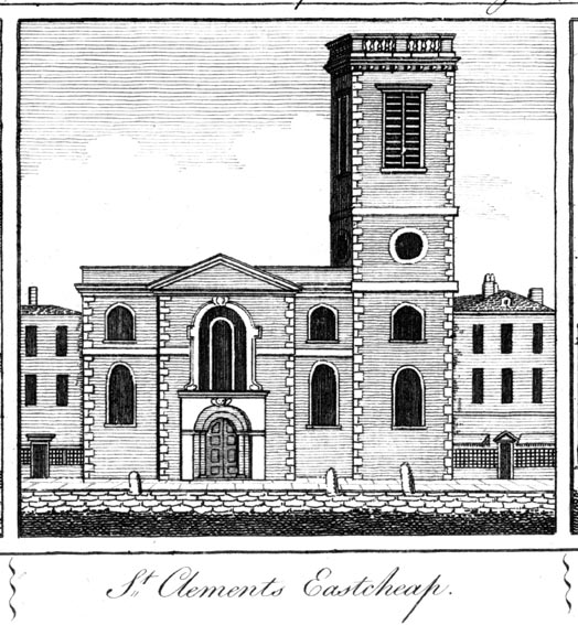 St Clement Eastcheap, London. Engraved for Walter Harrison's History of London, part publication around 1777. Part of illustration.